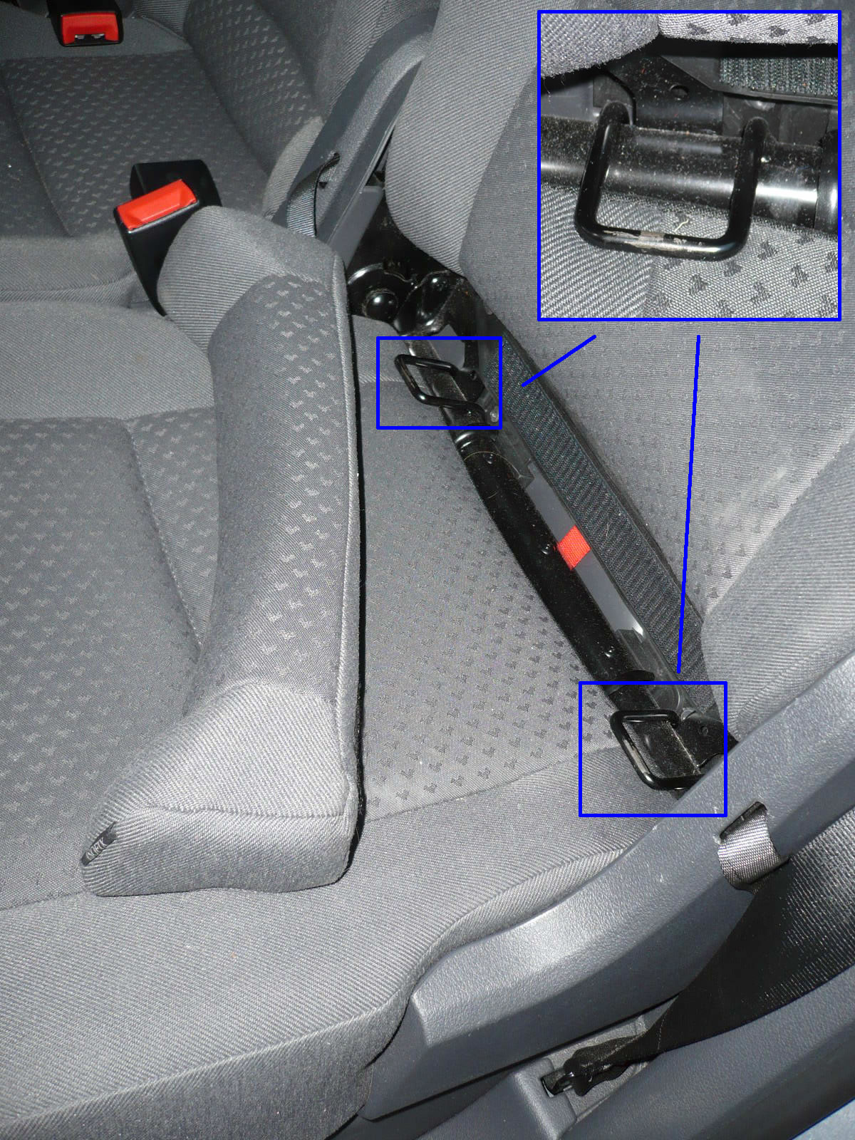 Anchorpoints for ISOFIX child car seats